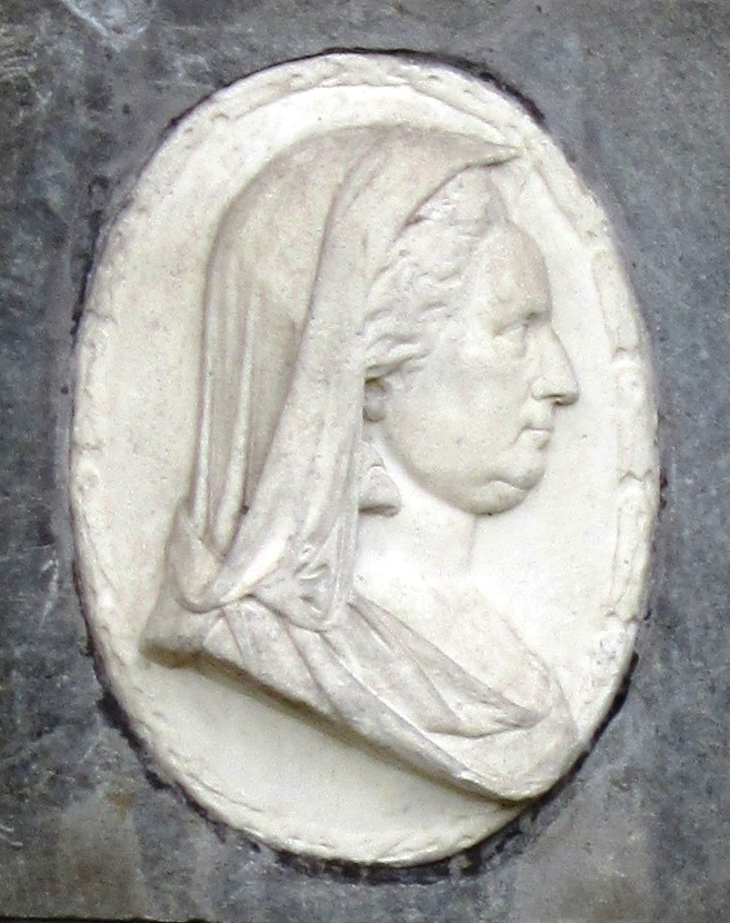 Catharina Charlotte von Lestwitz, geb. Treskow (1734–1789), von Johann Gottfried Schadow